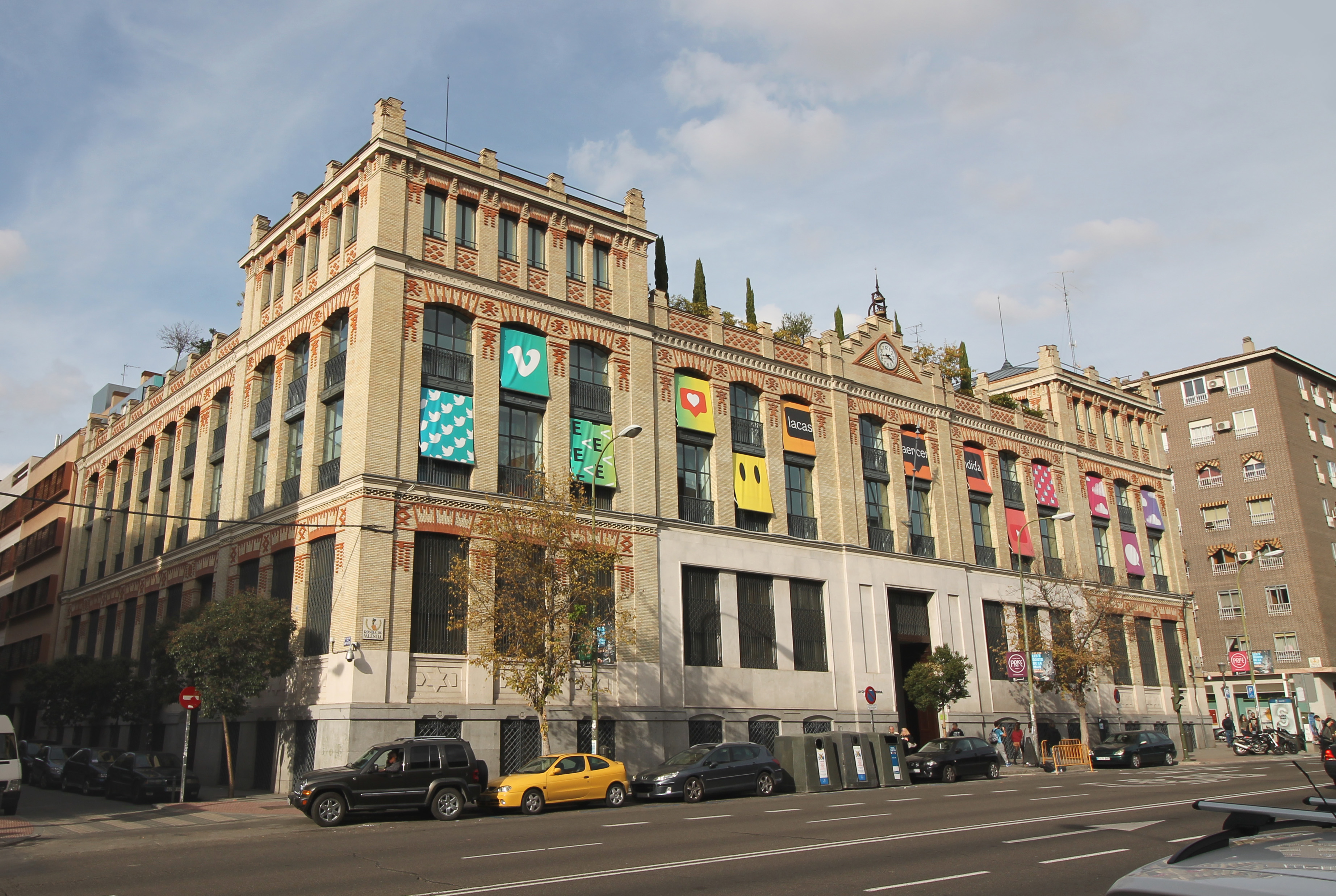 Façade of La Casa Encendida ("The Enlighted House") in Madrid (Spain).